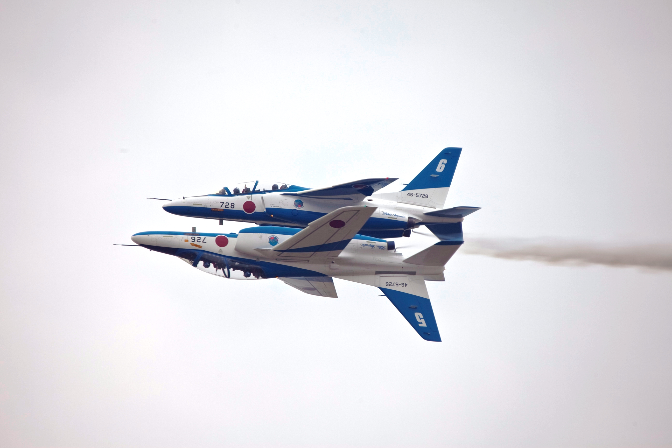 The Japan Air Self-Defense Force's Blue Impulse aerobatic exhibition team performs aerial maneuvers in formation during Friendship Day at Marine Corps Air Station Iwakuni, Japan, May 5, 2010.